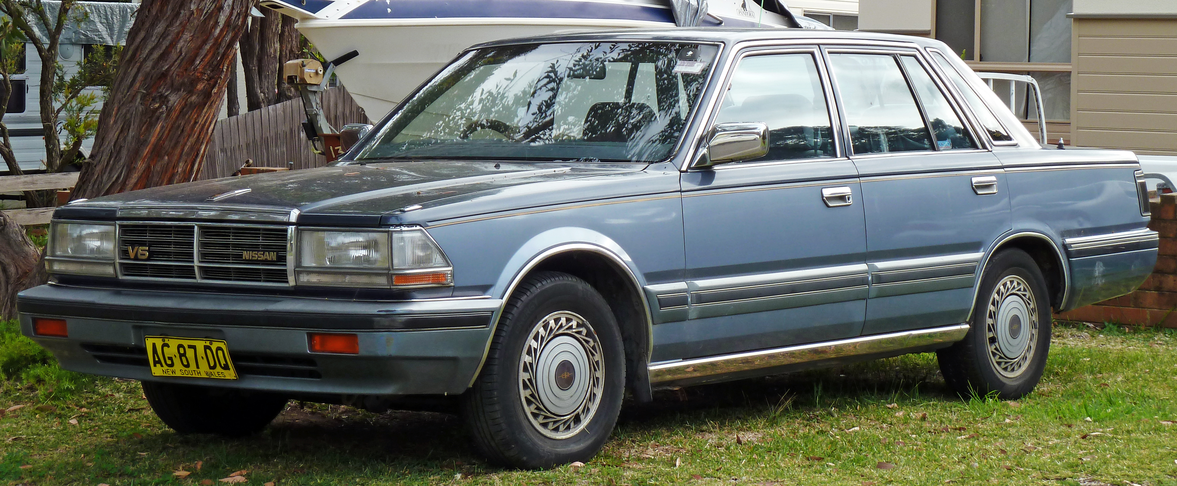 1987 Nissan 300C (Y30) sedan. Photographed in Gymea, New South Wales, Australia.